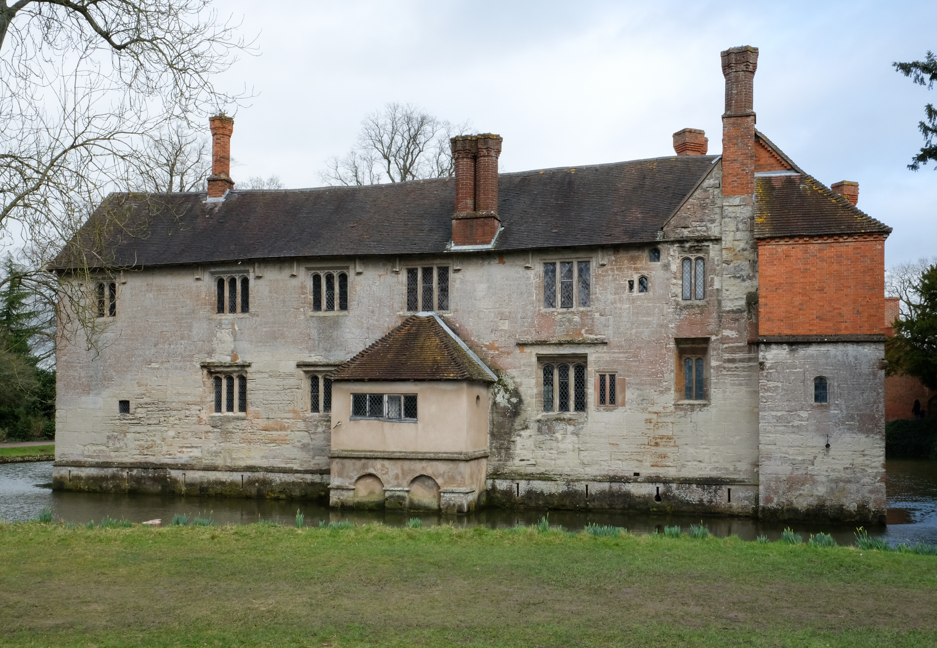 Baddesley Clinton moated manor house from the south west.